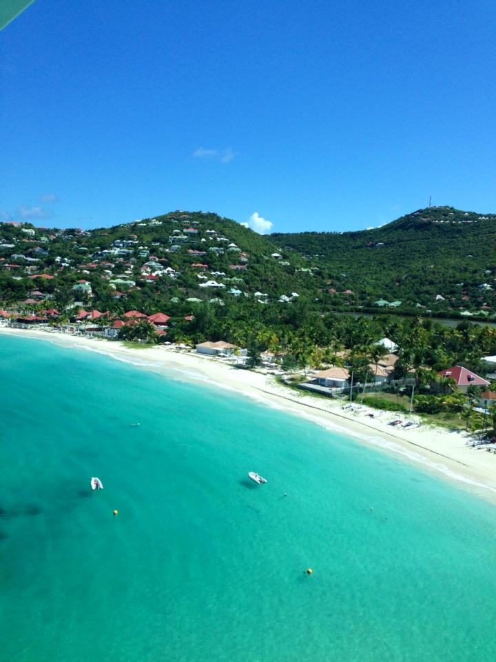 St. Jean beach in Saint-Barthelemy. View from the air.